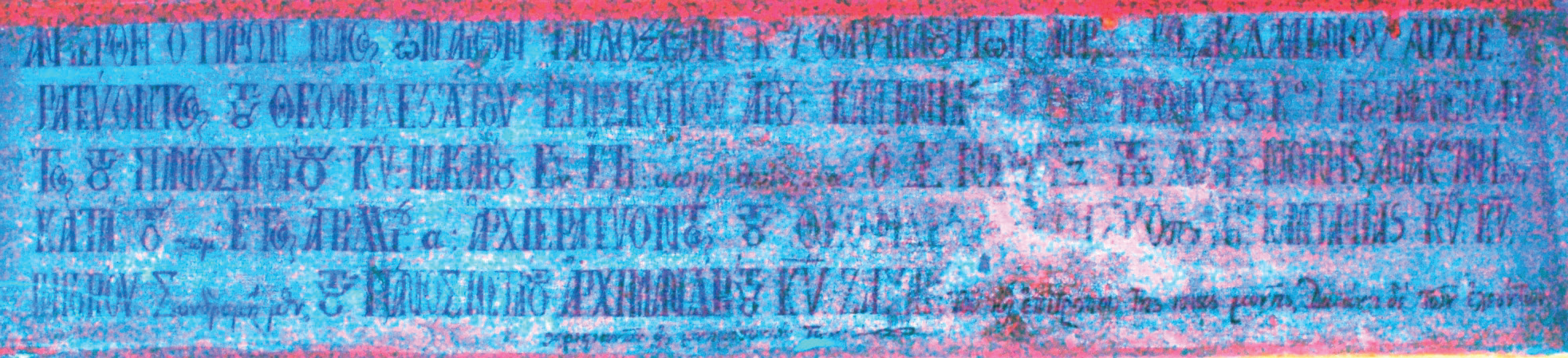 Nisi Monastery Inscription